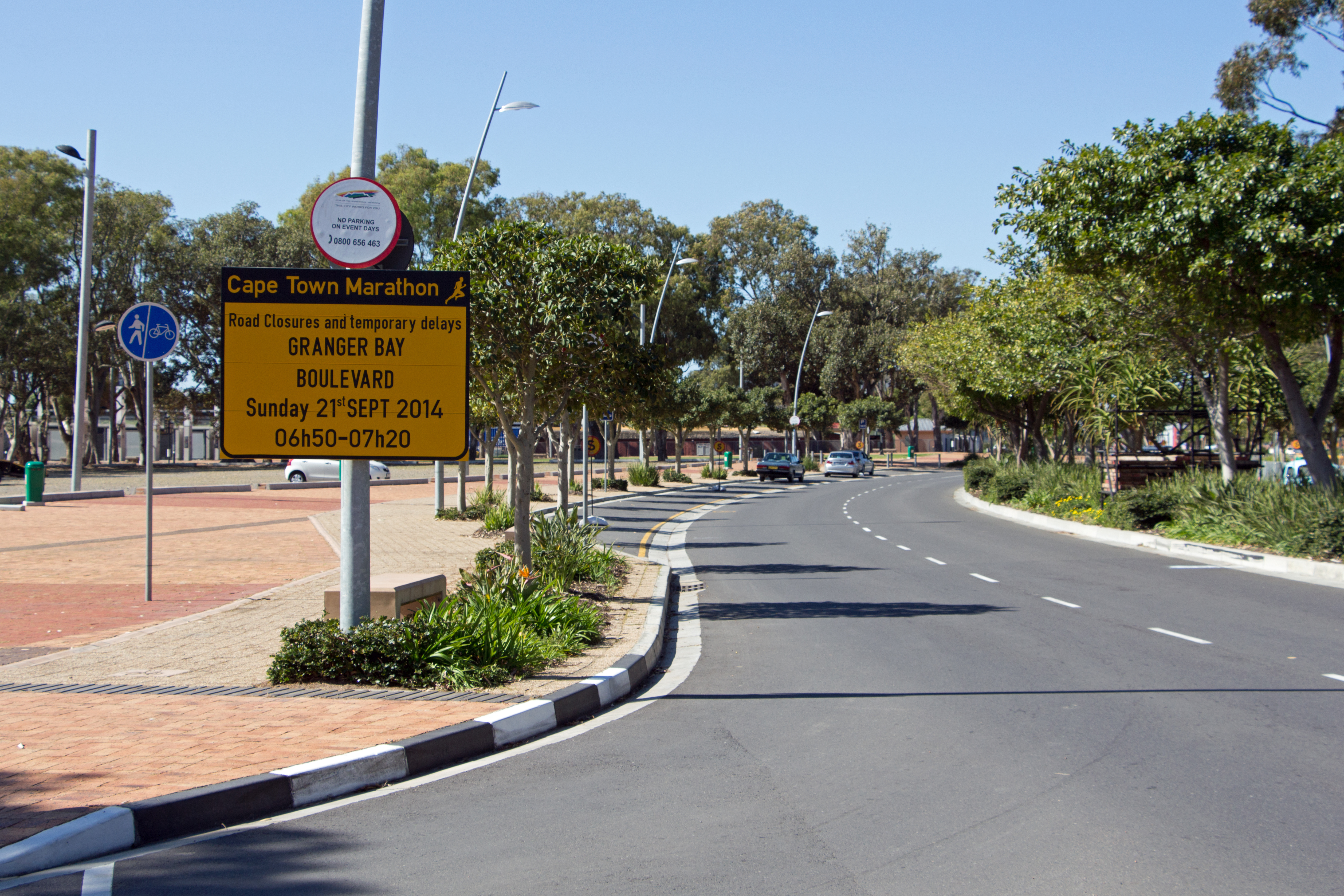 Cape Town Marathon sign, Granger Bay Boulevard, Cape Town